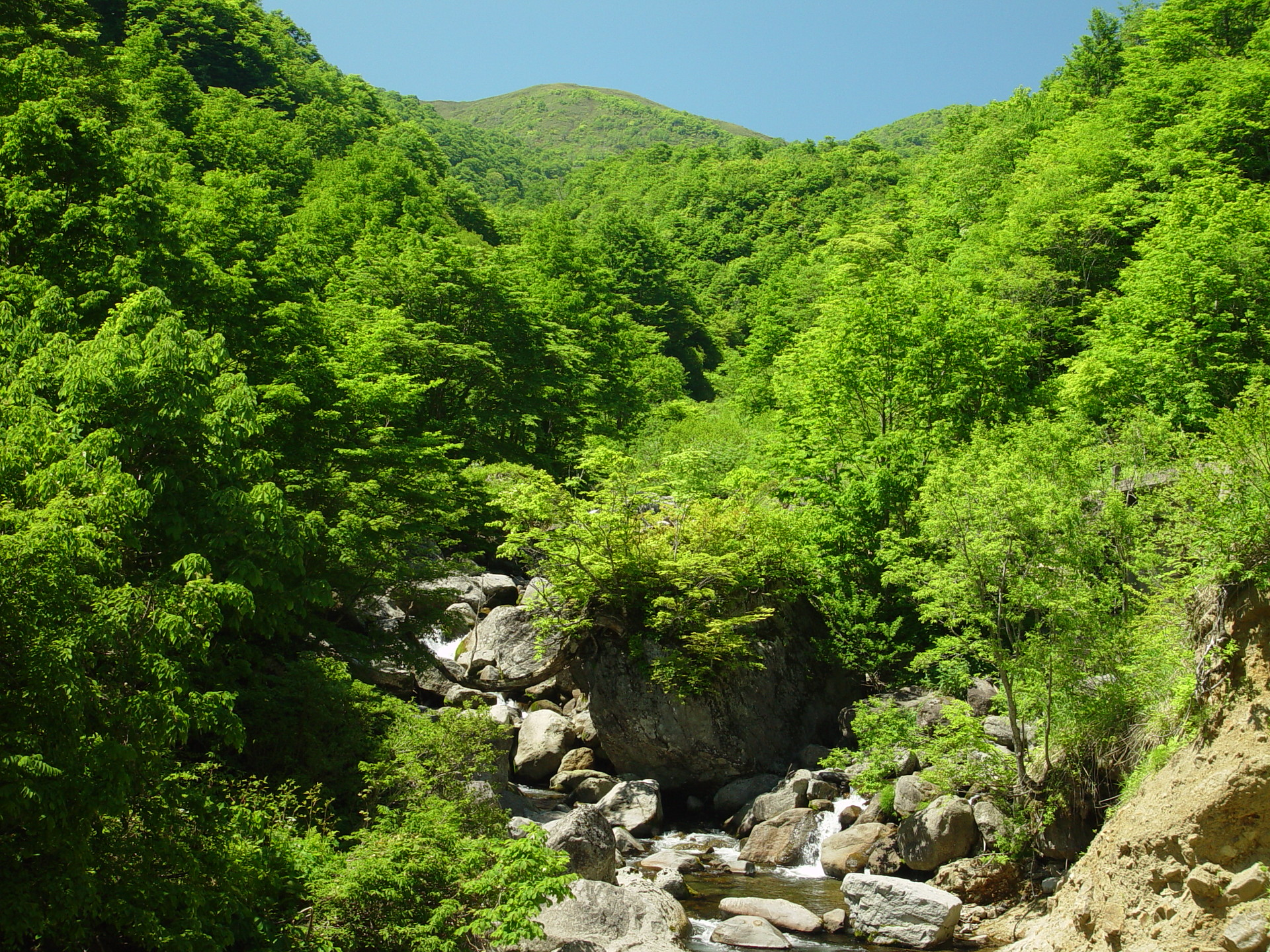 Itoshiro river